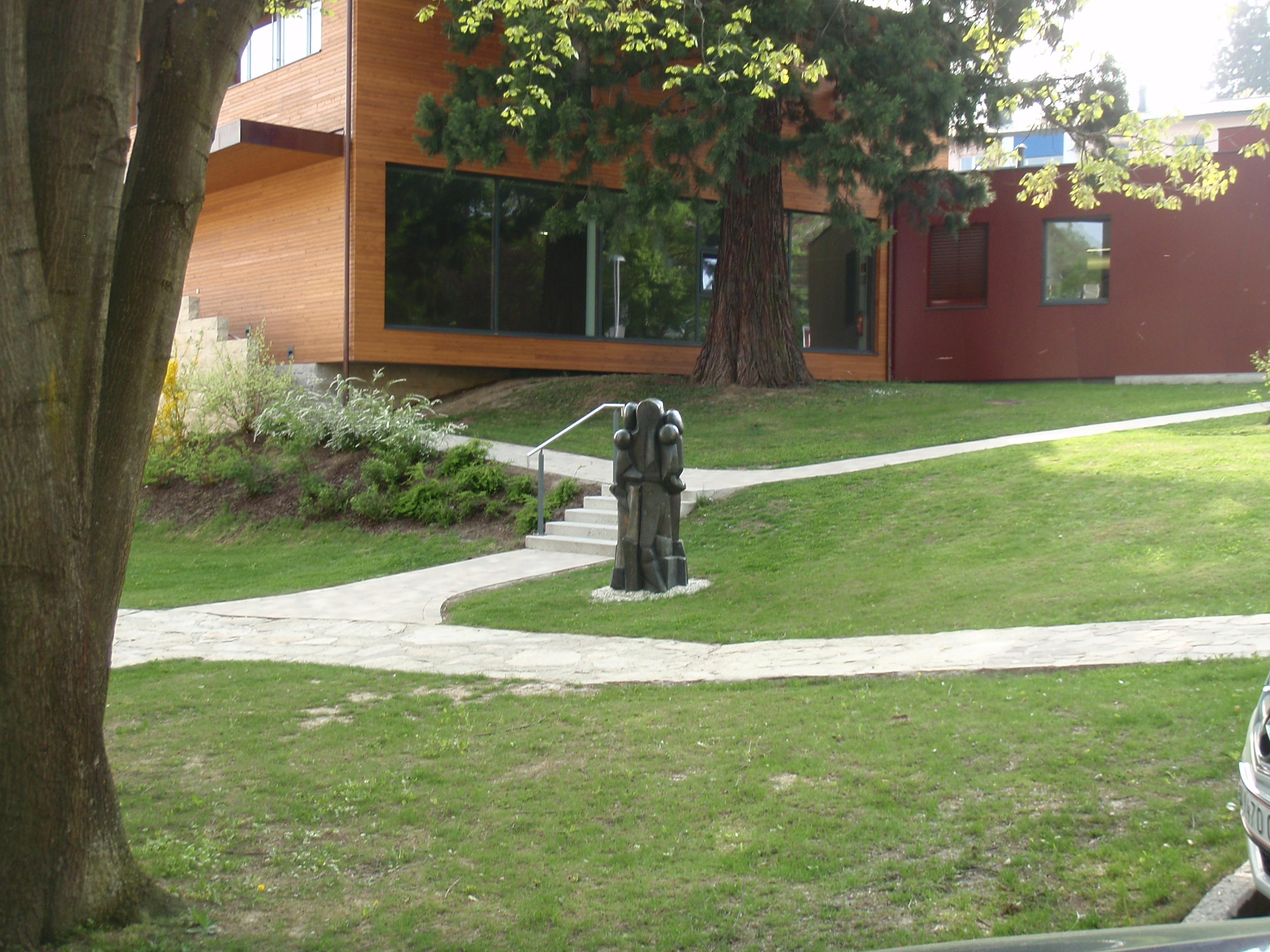 Cityhall of Eichgraben, Lower Austria. locatet in the southwest. In front the Tree of Life of Walter Son.